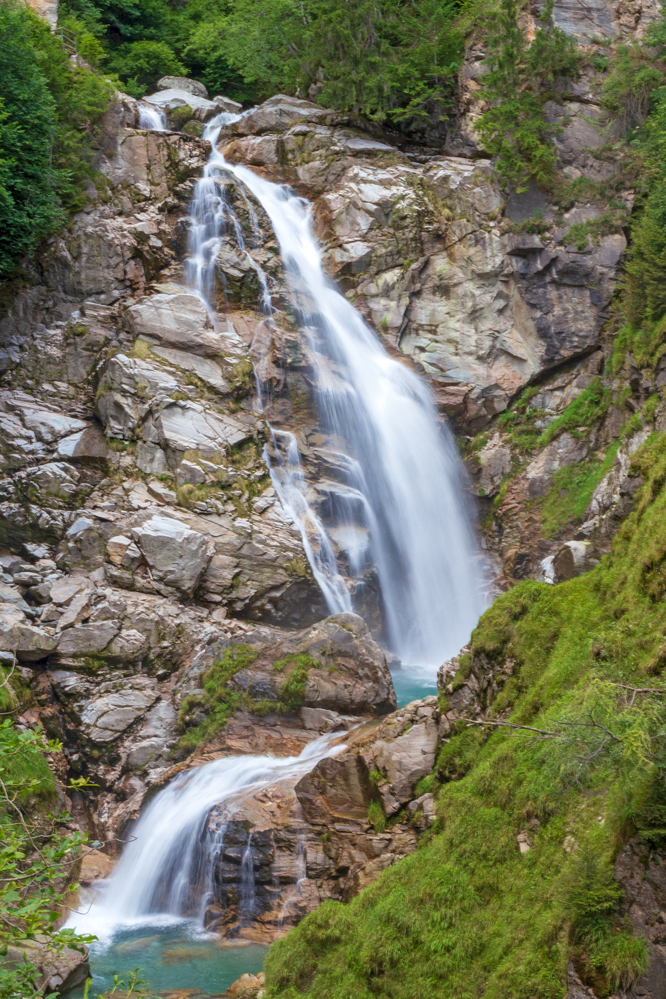 Groppenstein waterfall in the Groppenstein gorge, Carinthia, Austria.